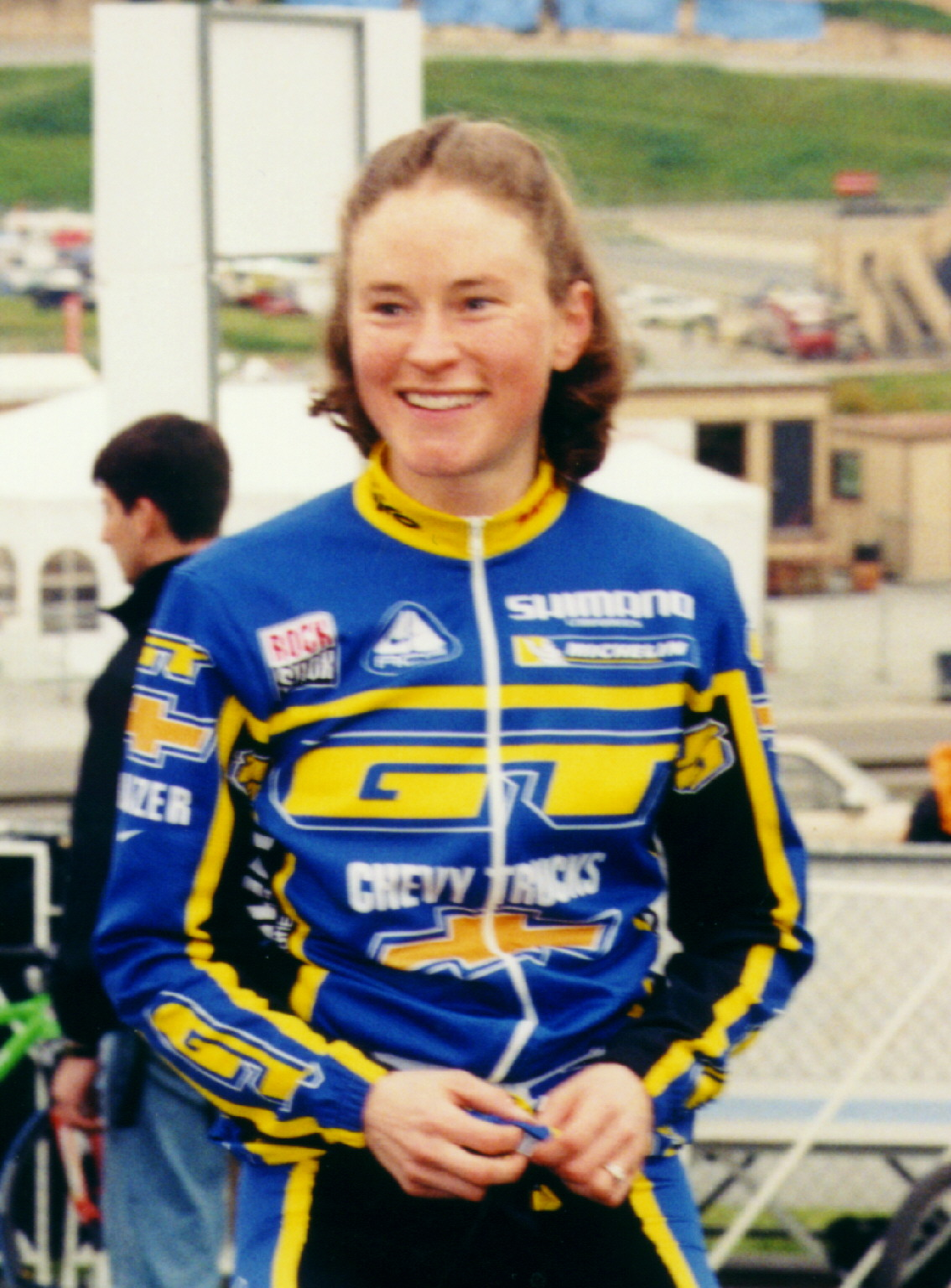 Alison Dunlap, 2001 World Cross-country Mountain Bike Champion, warming up on a trainer at the 2001 Sea Otter Classic.